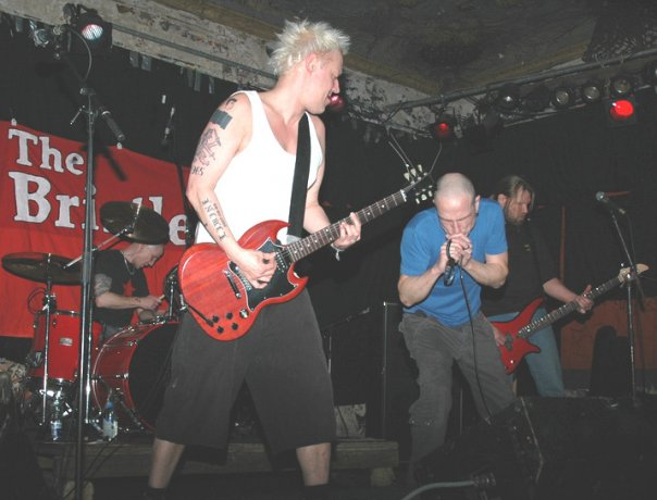 Bristles live in Köpi, Berlin, Germany 2010